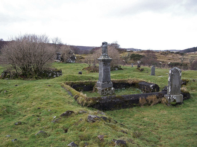 St Columba's Island Graves ancient and relatively modern on a small island in the River Snizort.